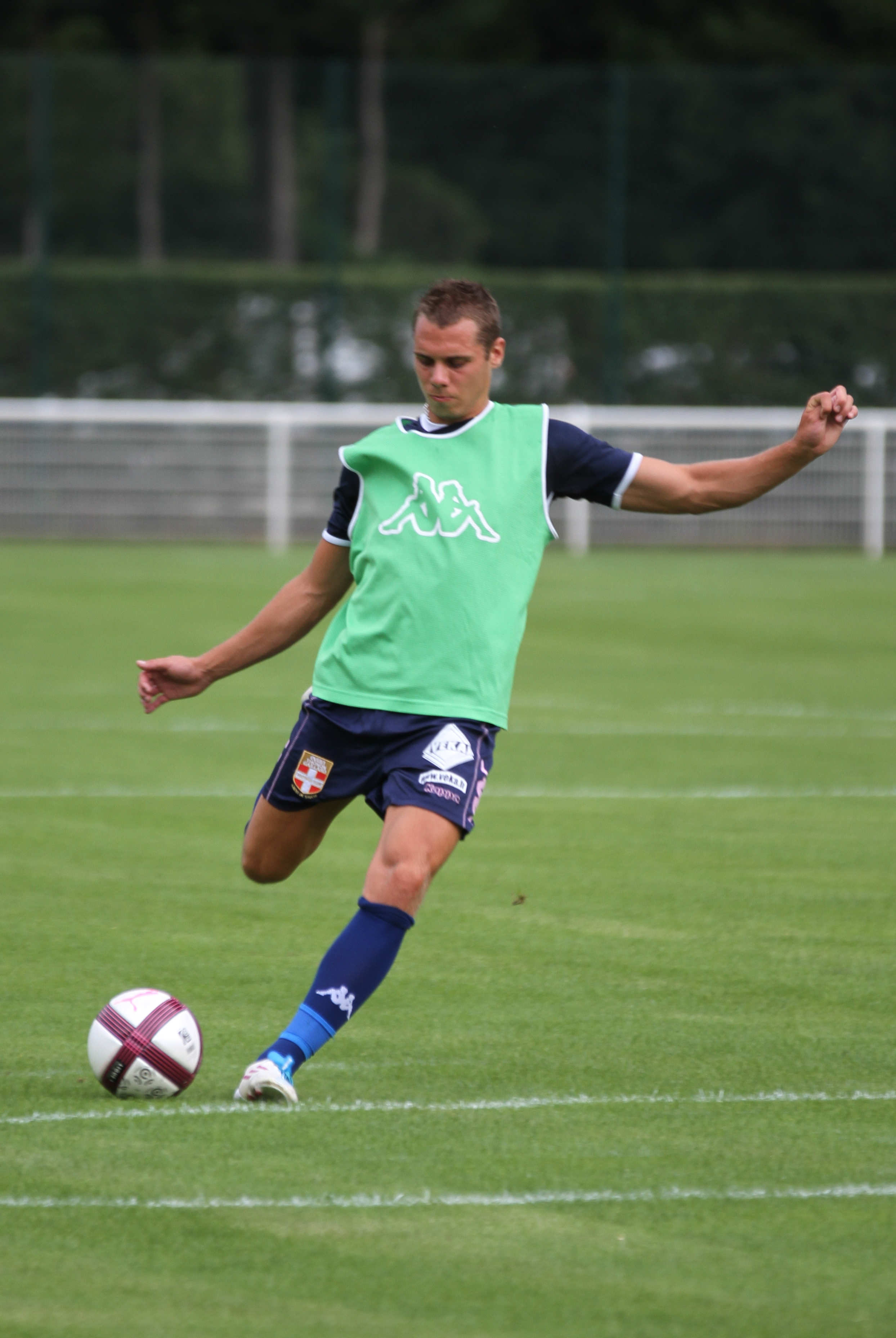 Kevin Berigaud